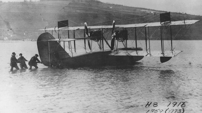 Photograph of the Curtiss Model H-8 prototype flying boat.